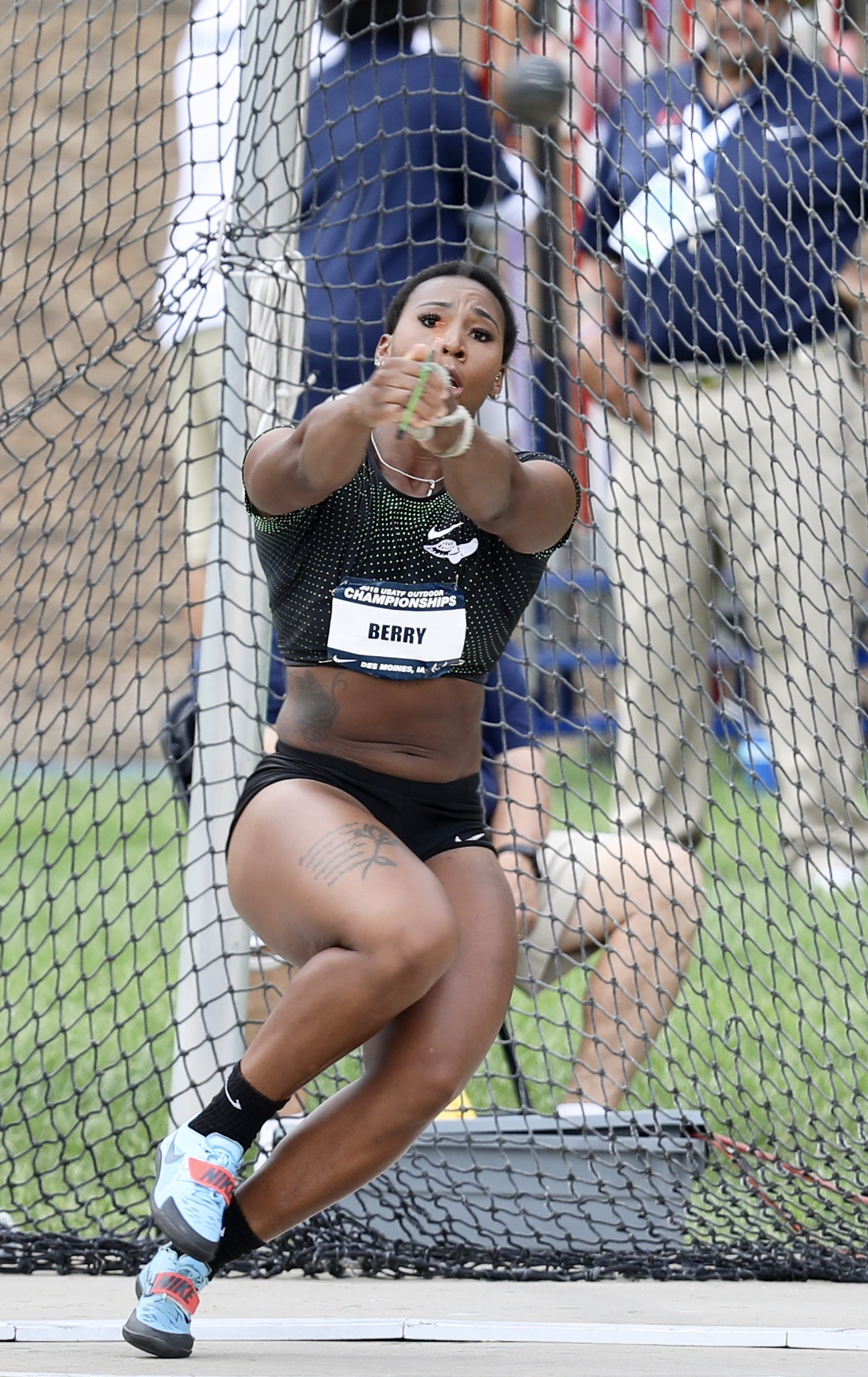 2018 USA Outdoor Track and Field Championships